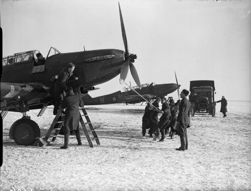 Royal Air Force- France 1939-1940. Ground crews attempting to start the engine of a Fairey Battle of No. 226 Squadron RAF in the cold weather at Reims-Champagne.